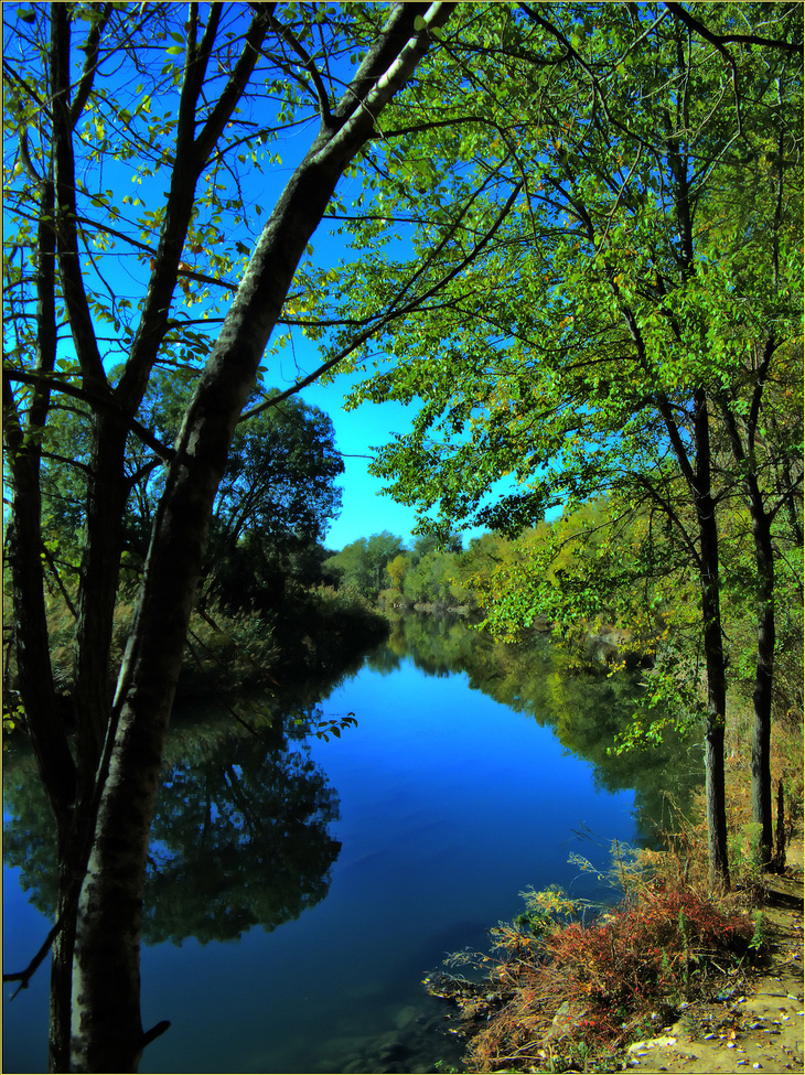 Henares River. Alcalá de Henares, Community of Madrid, Spain